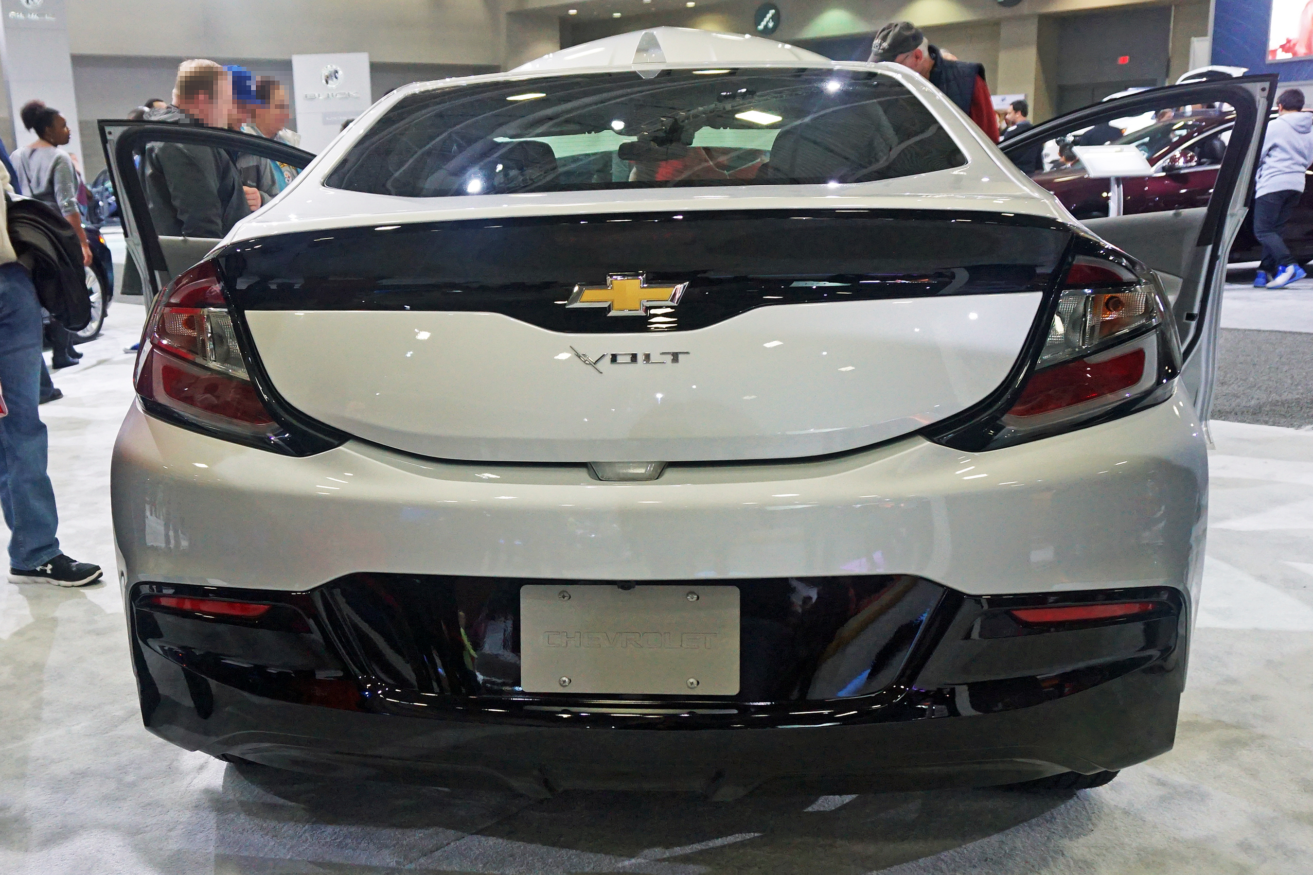 2017 Chevrolet Volt (second generation) exhibited at the 2017 Washington Auto Show, D.C., U.S.